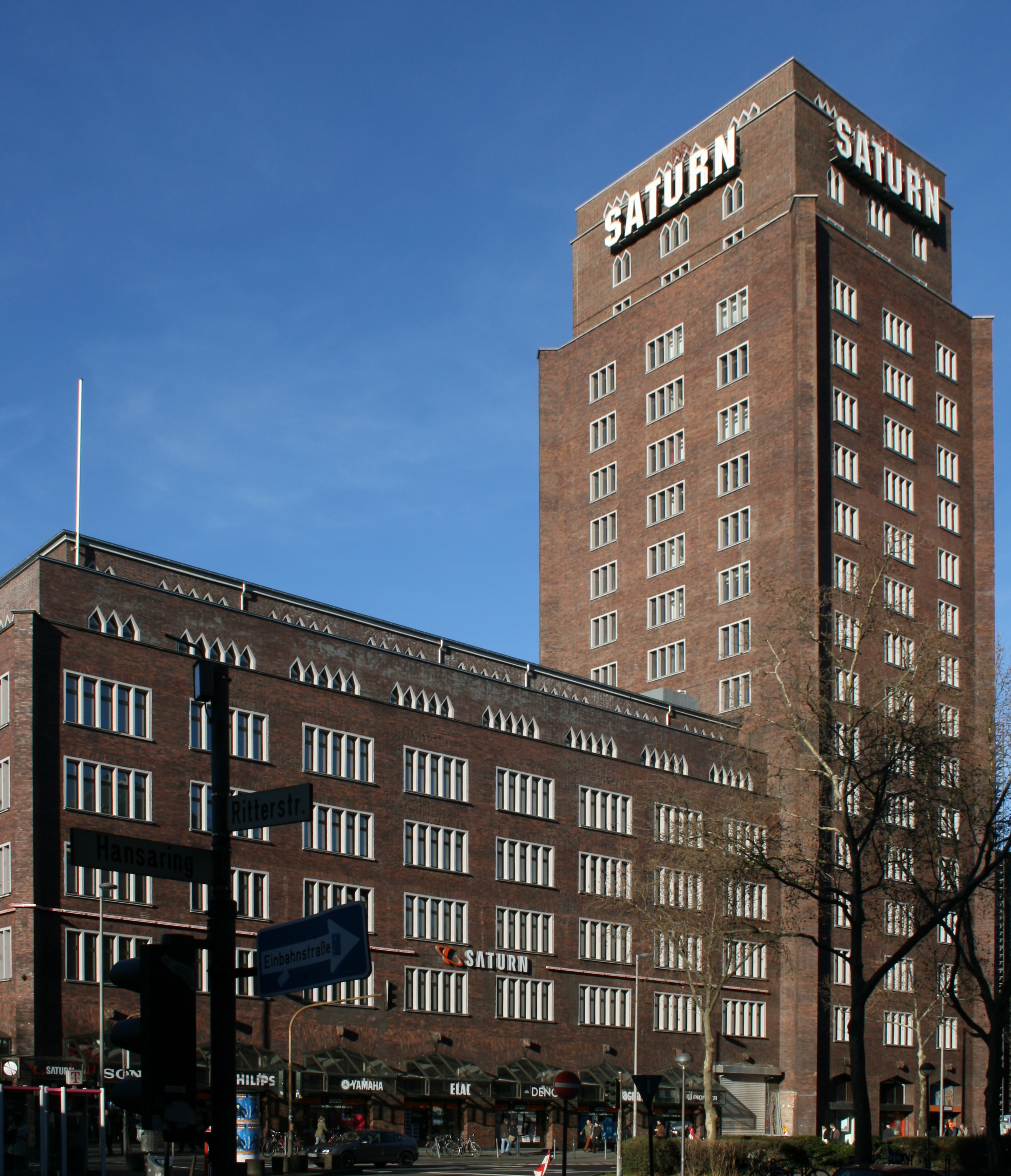 Hansahochhaus, Cologne This is the photograph of an architectural monument. It is part of the list of cultural monuments of Köln, no. 4631